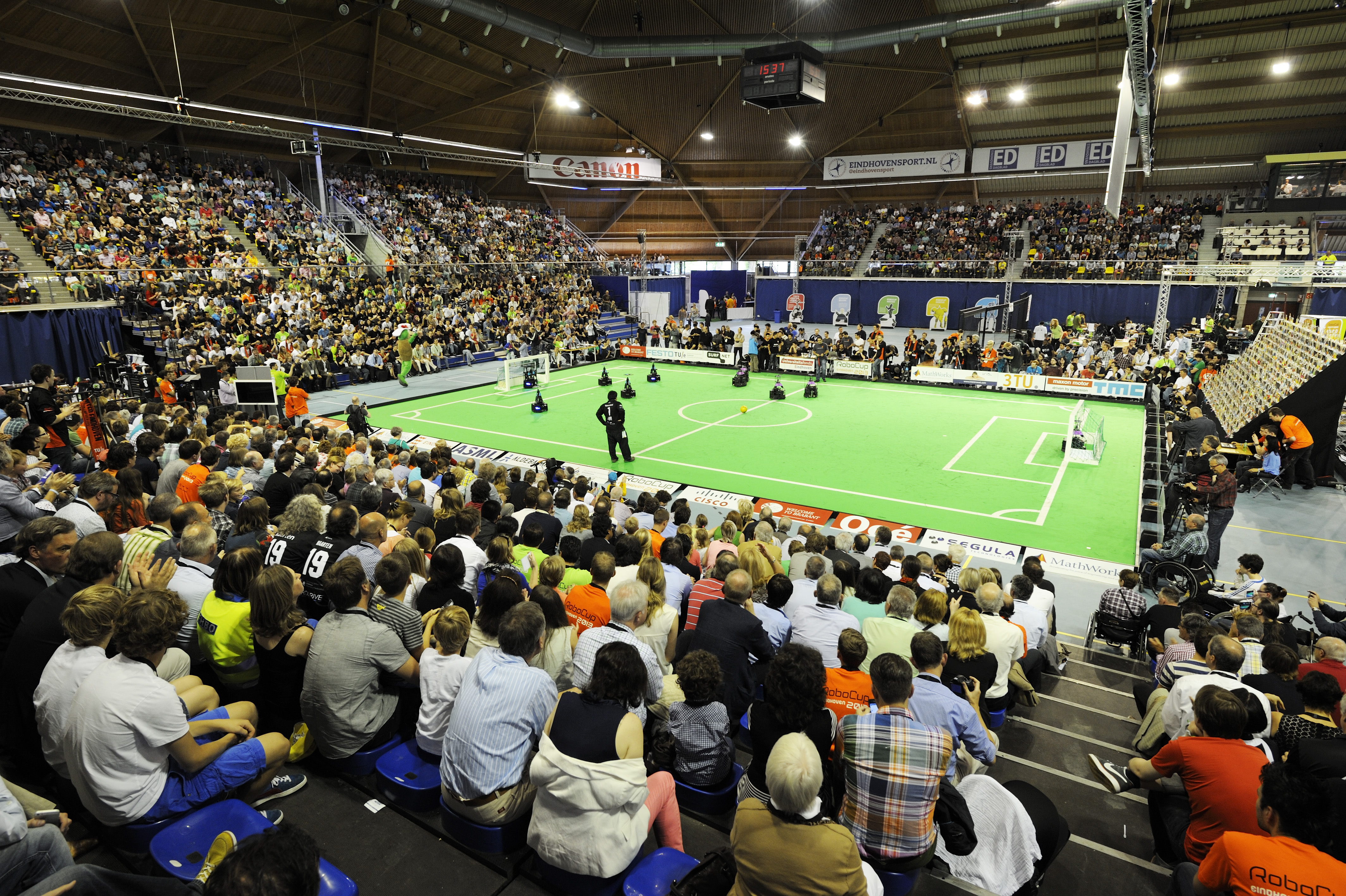 Final match of the 2013 RoboCup world championships in robot soccer. Team Tech United of Eindhoven University of Technology played against team Water from the Beijing Information Science and Technology University.